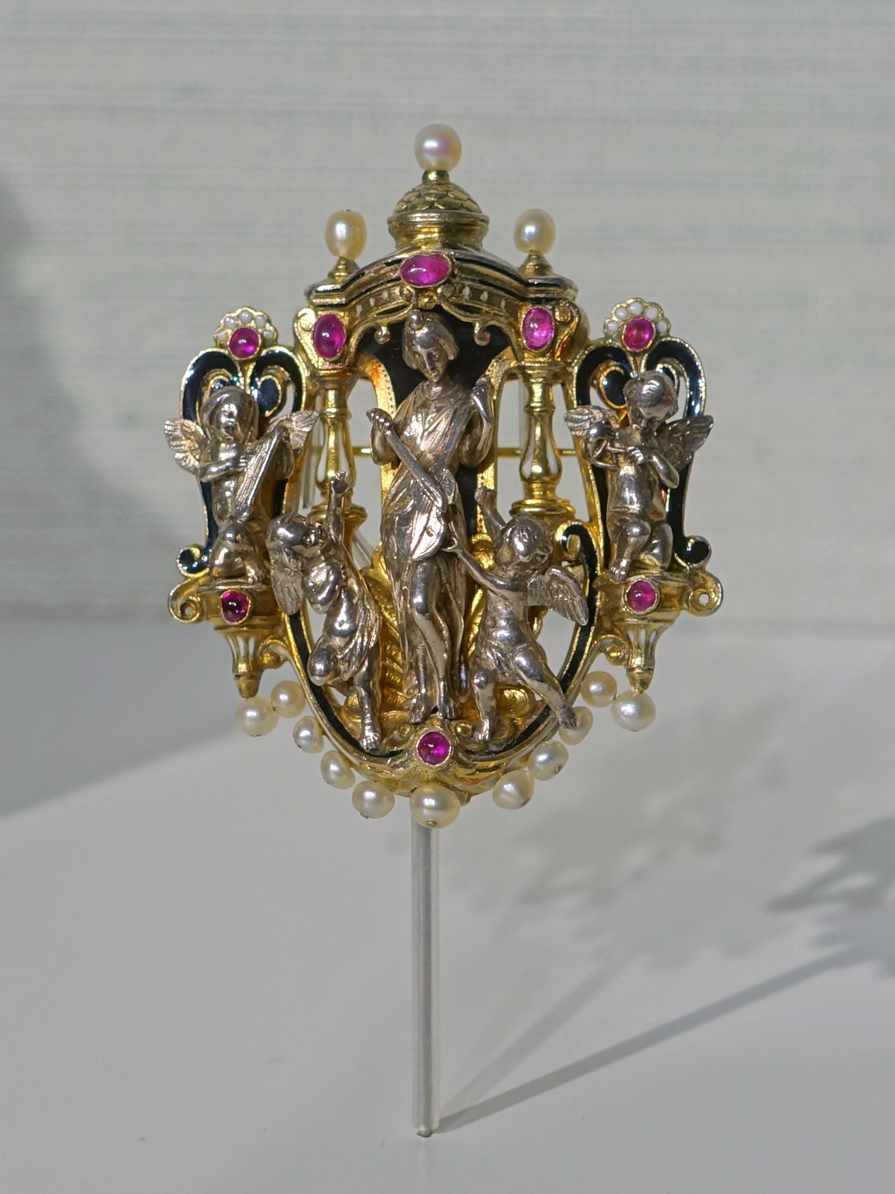 Exhibit in the Hessisches Landesmuseum Darmstadt - Darmstadt, Germany. As a utilitarian object, this exhibit is NOT subject to copyright laws. Instead it is subject to Industrial Design Rights; see Industrial Design Right for more information. If this object was ever covered by a design patent, that patent has long since expired, and thus this image is in the public domain.